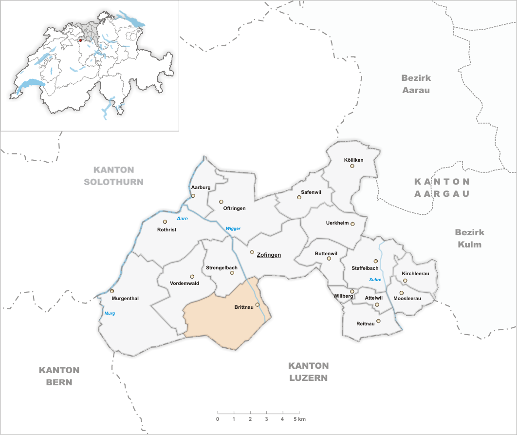 Municipality Brittnau